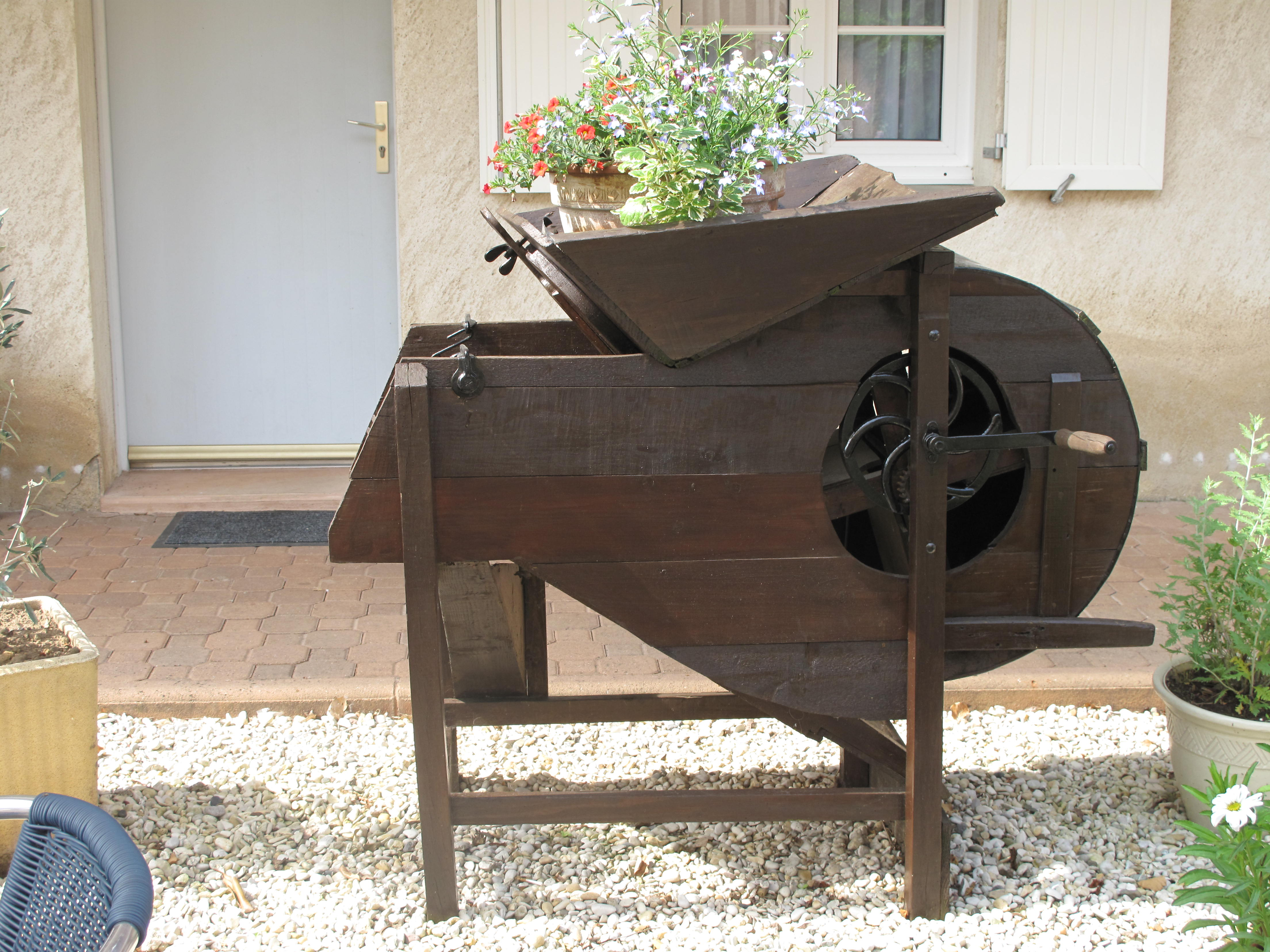 Ancient winnowing machine in the yard of the hotel du Moulin de la Brevette (=Brevette mill hotel), Arbigny (Ain, France).